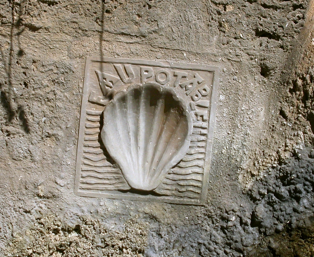 St.James' shell at a well of the Way, Saint-Guilhem-le-Désert, Languedoc-Roussillon, France